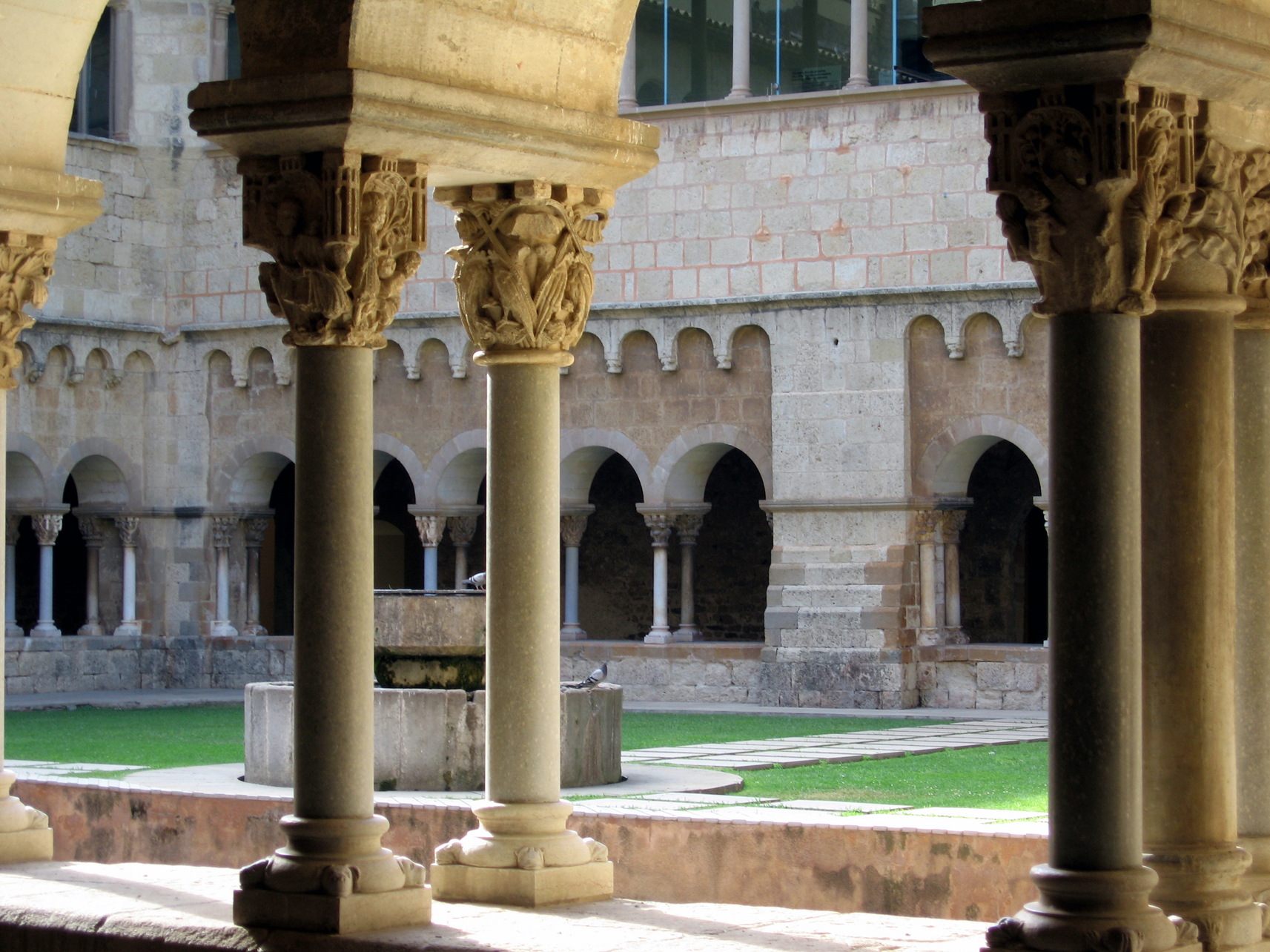 Cloister of the monastery “Monestir de Sant Cugat” in Sant Cugat del Vallès (Catalonia, Spain).